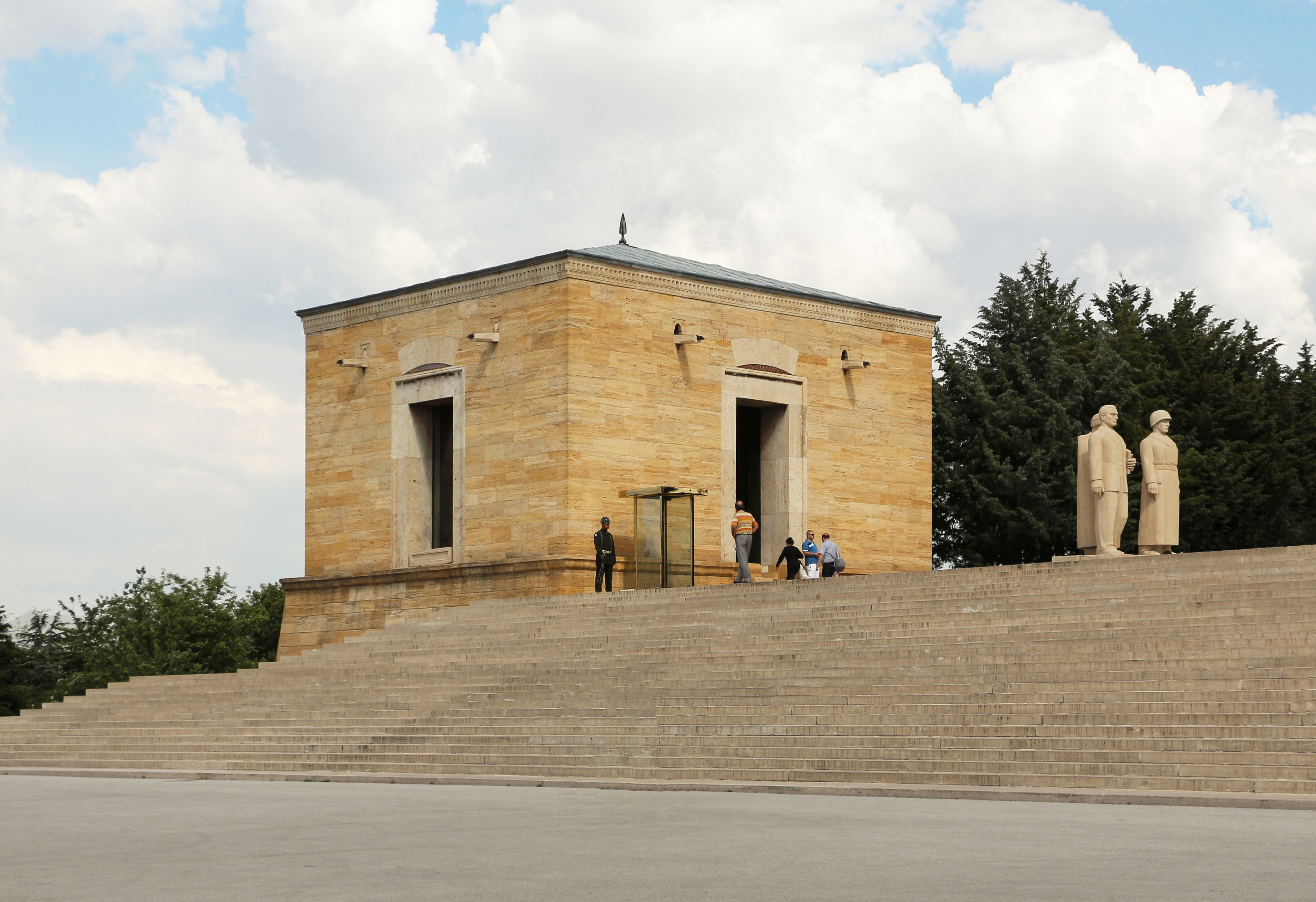 A pavillion at the Mausoleum of Atatürk (Anıtkabir), Ankara